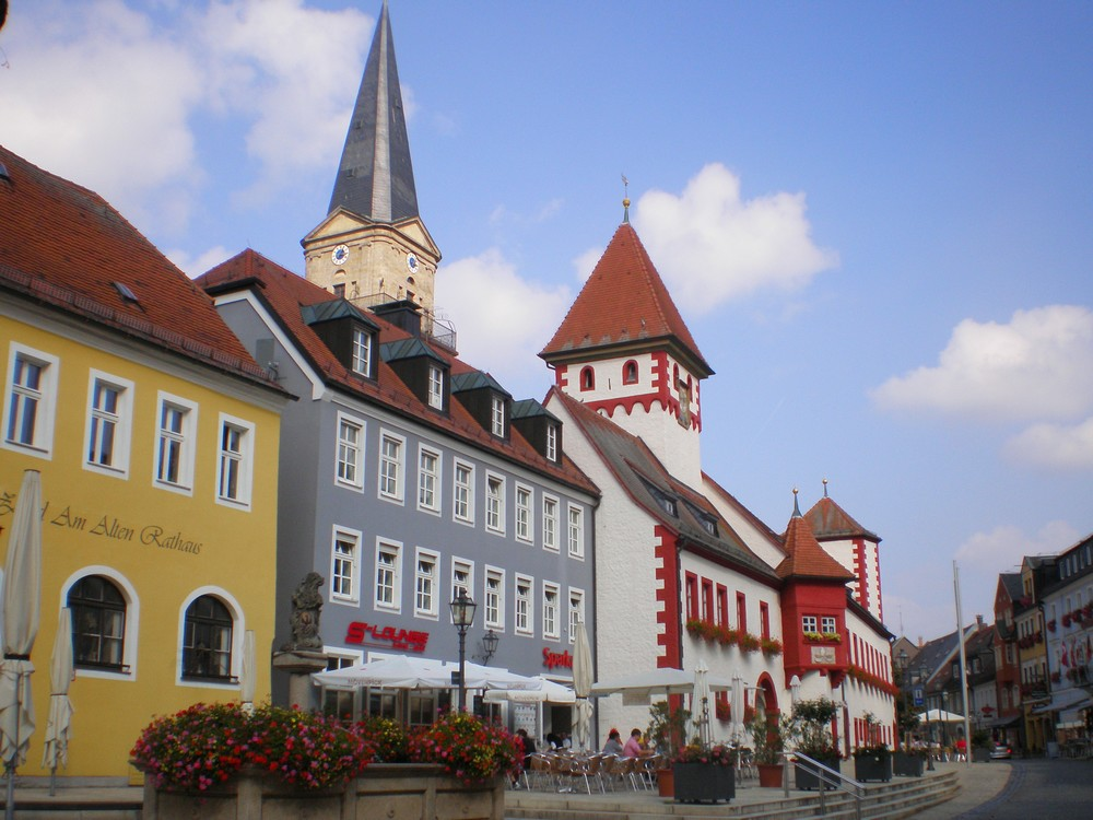 Marktredwitz, Bavaria, Germany; Market Street